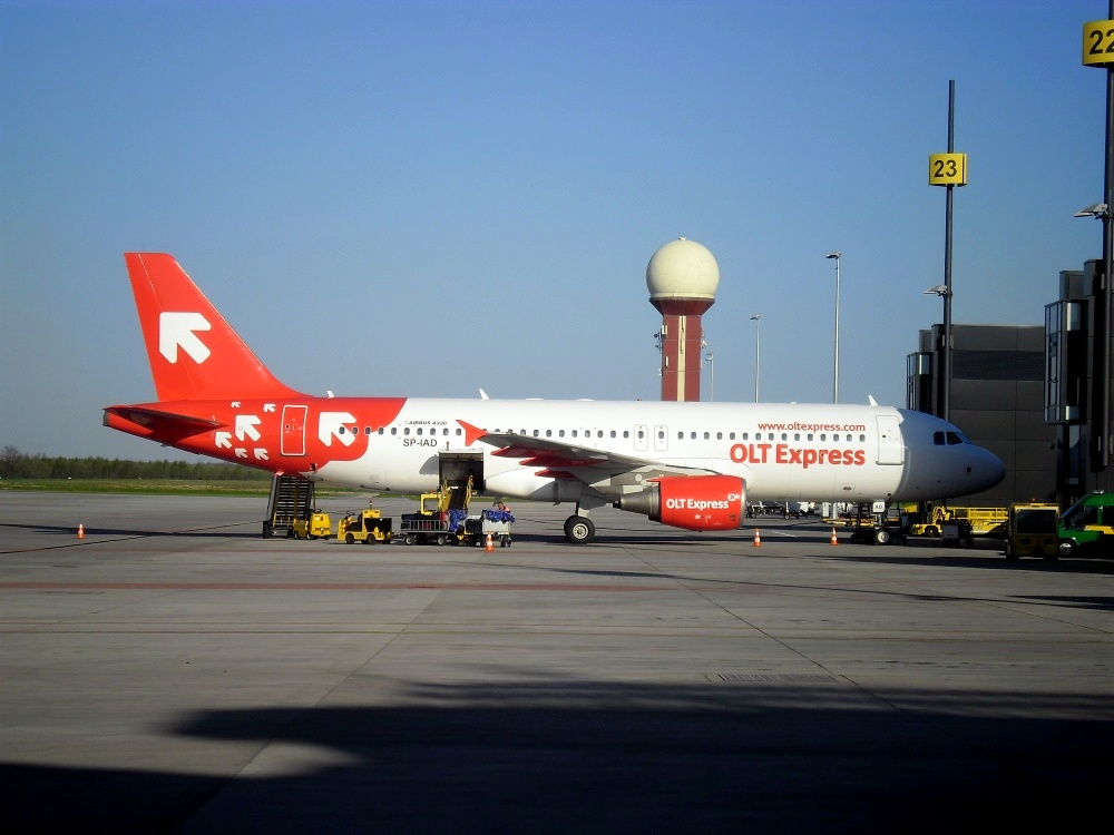 OLT Express Airbus A320 at Gdańsk Airport, Poland